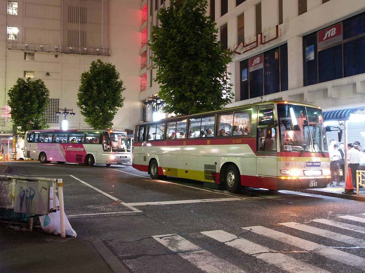 Now Tokyu Bus night express bus service "Midnight Arrow" operated with One-Roma type bus for barrier-free, often operate with touring coach: airport limousine fleet. forward: NI1838 (for Saginuma and Aobadai) Model: Hino Selega FD (KC-RU3FSCB) License plate: KNY200 KA2083 (ex. KNK200 KA-353: from Nijigaoka Dept) aft: NI288 (for Musashi-kosugi and Shin-yokohama) Model: Mitsubishi Fuso Aero Bus KL-MS86MP License plate: KNY200 KA2091 (ex. KNK200 KA-150: from Nijigaoka Dept) Place: Shibuya station, Shibuya ward, Tokyo Japan